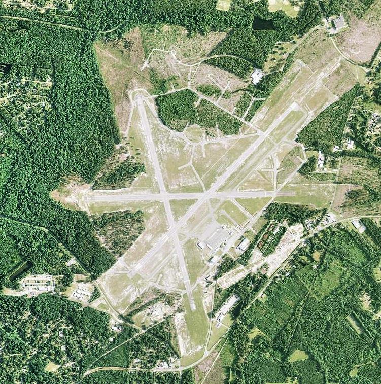 USGS digital orthophoto of Lowcountry Regional Airport in South Carolina